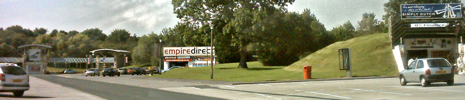 Buywell Retail Park, Thorpe Arch Trading Estate, Wetherby, West Yorkshire